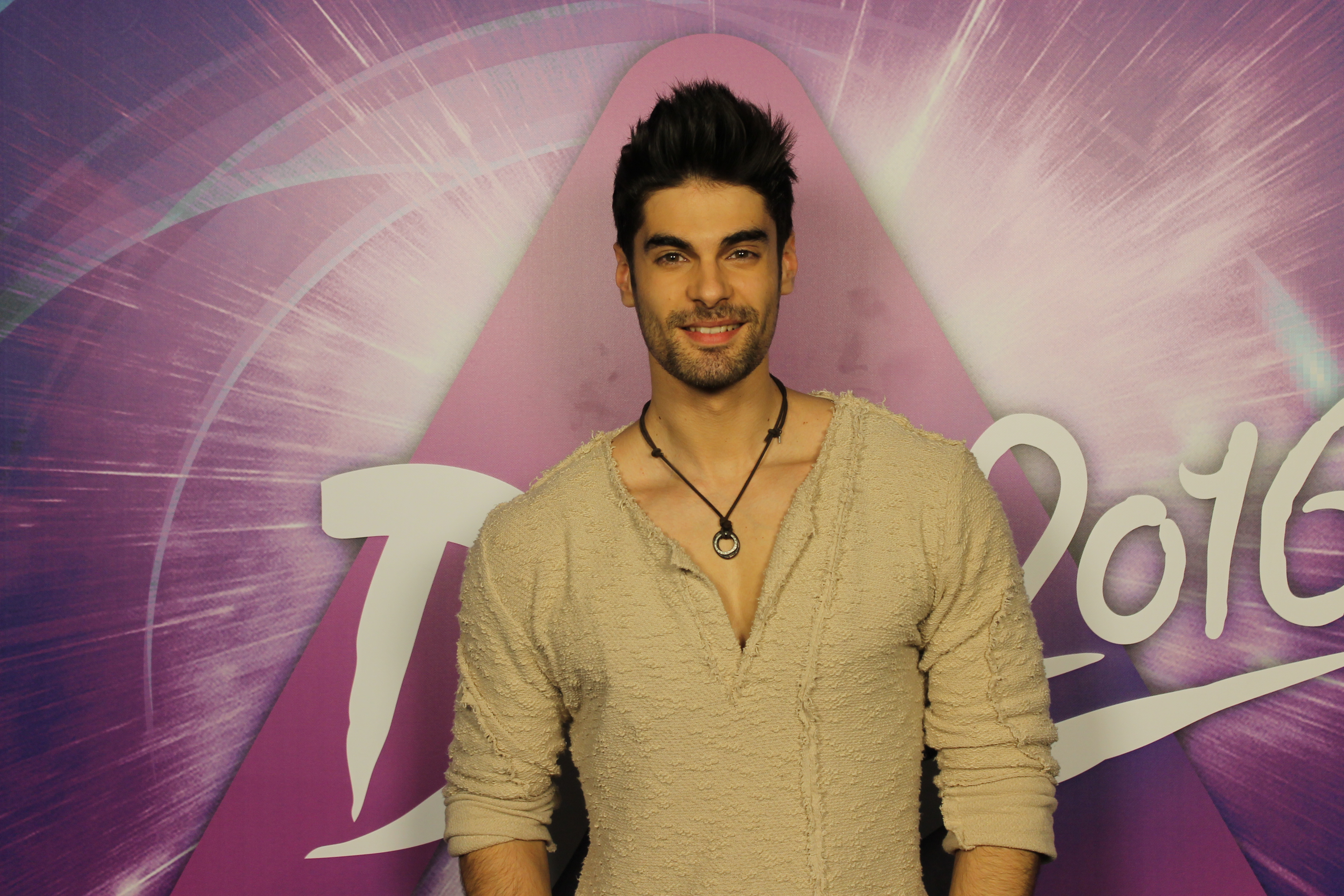 A Dal 2016 finalist and winner: Freddie